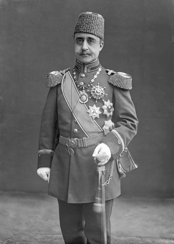 Portrait of the Turkish crown prince, Windsor 1911